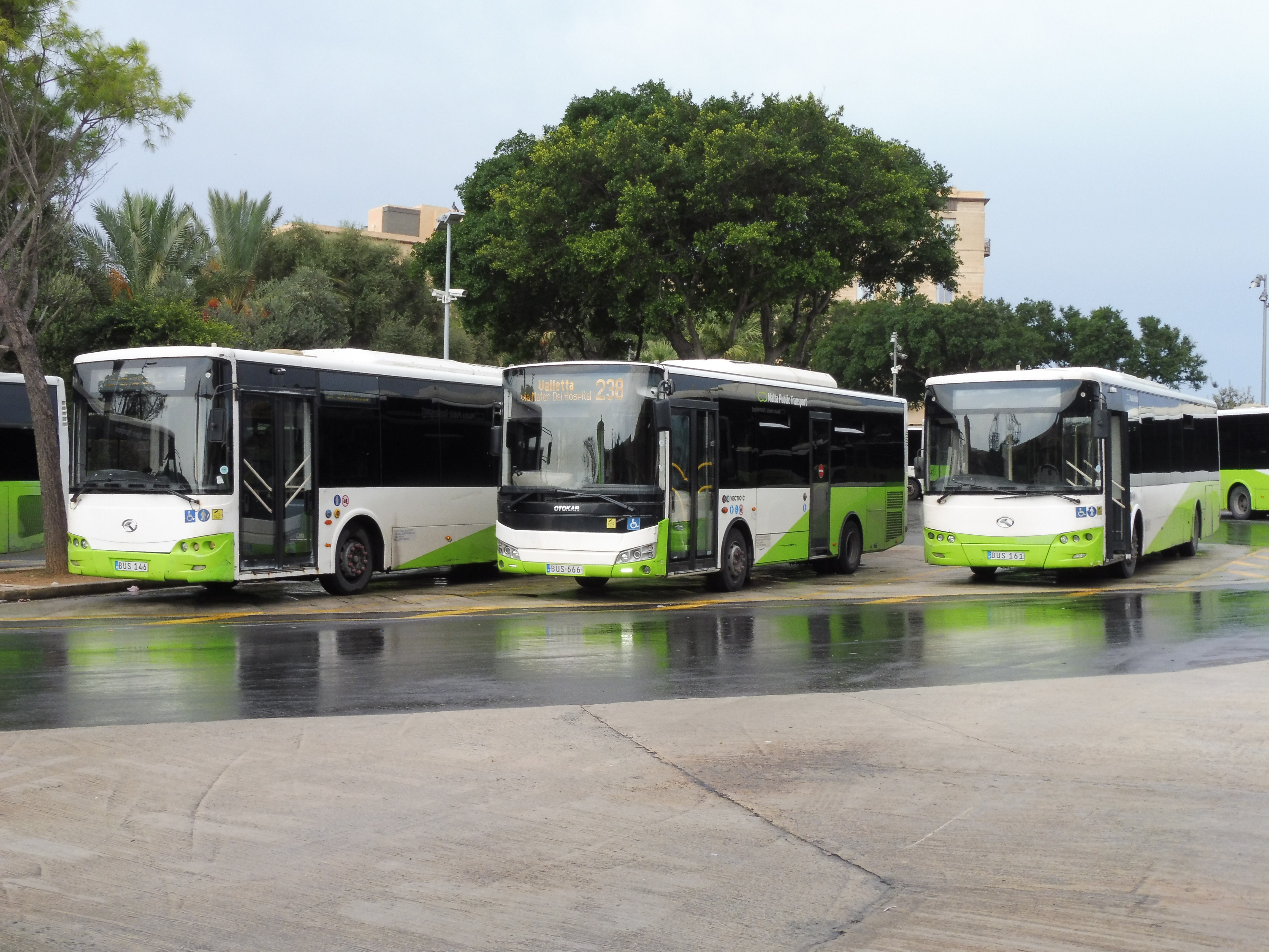 Buses at the Main Bus Station in Valletta (Malta). In the middle an Otokar bus from Turkey, alongside with two King Long Buses from China (2019)